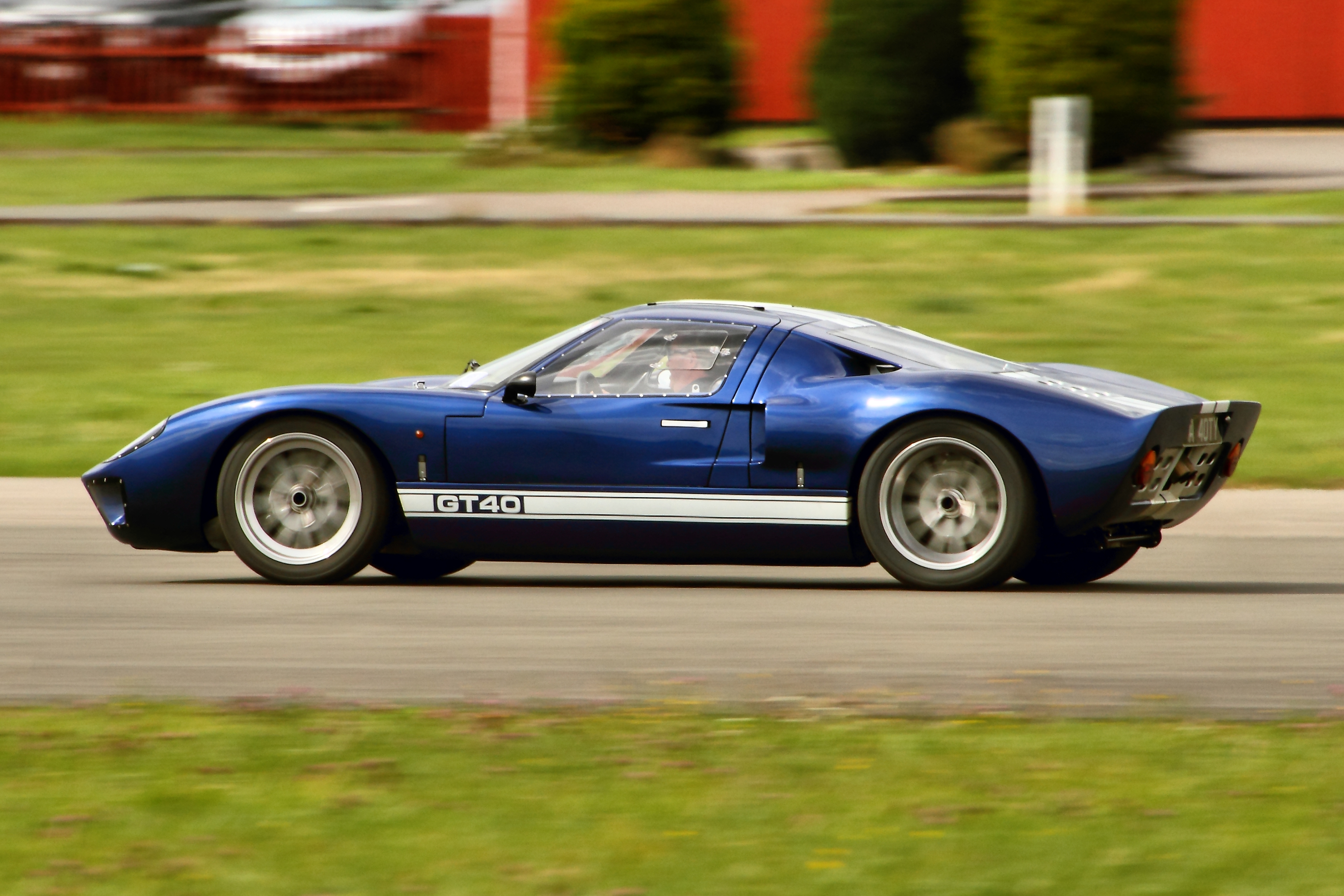 Dunsfold Wings and Wheels 2014 Cars and Bikes